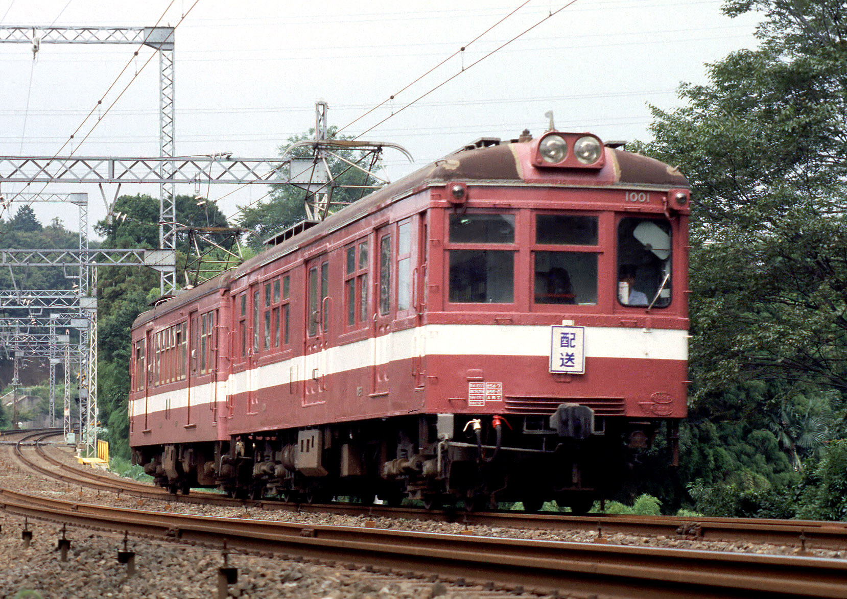 Odakyu Electric Railway DeNi1000 type baggage car coupled DeNi1300 type one running between Sobudaimae and Zama.